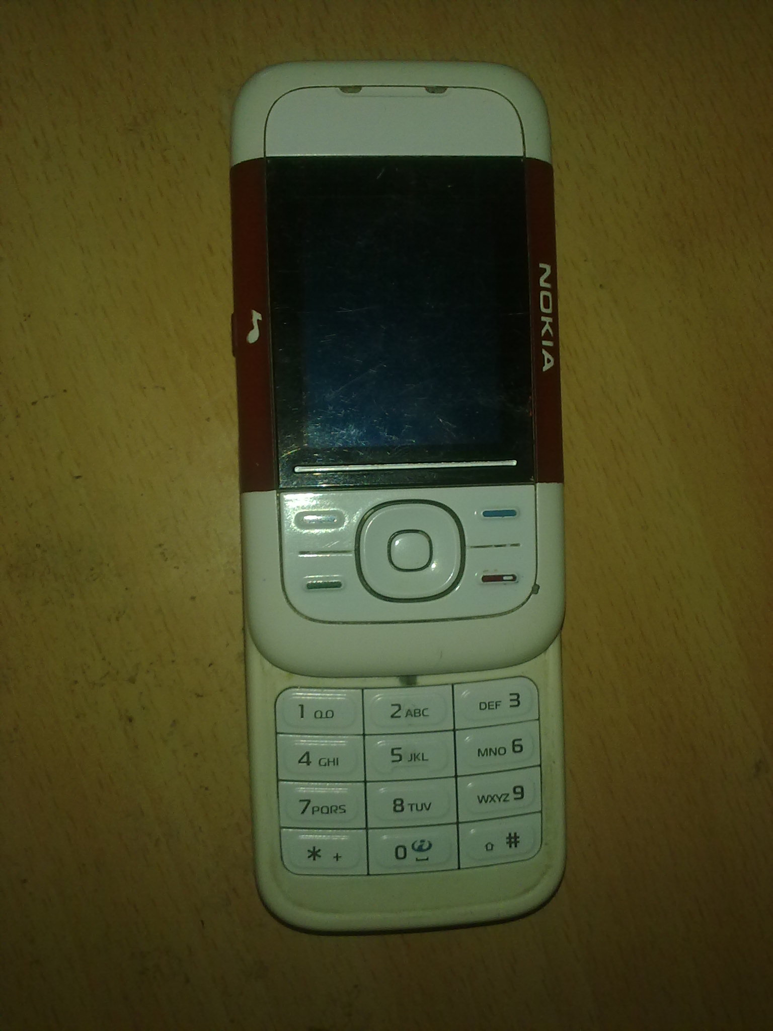 Nokia 5200 switched off